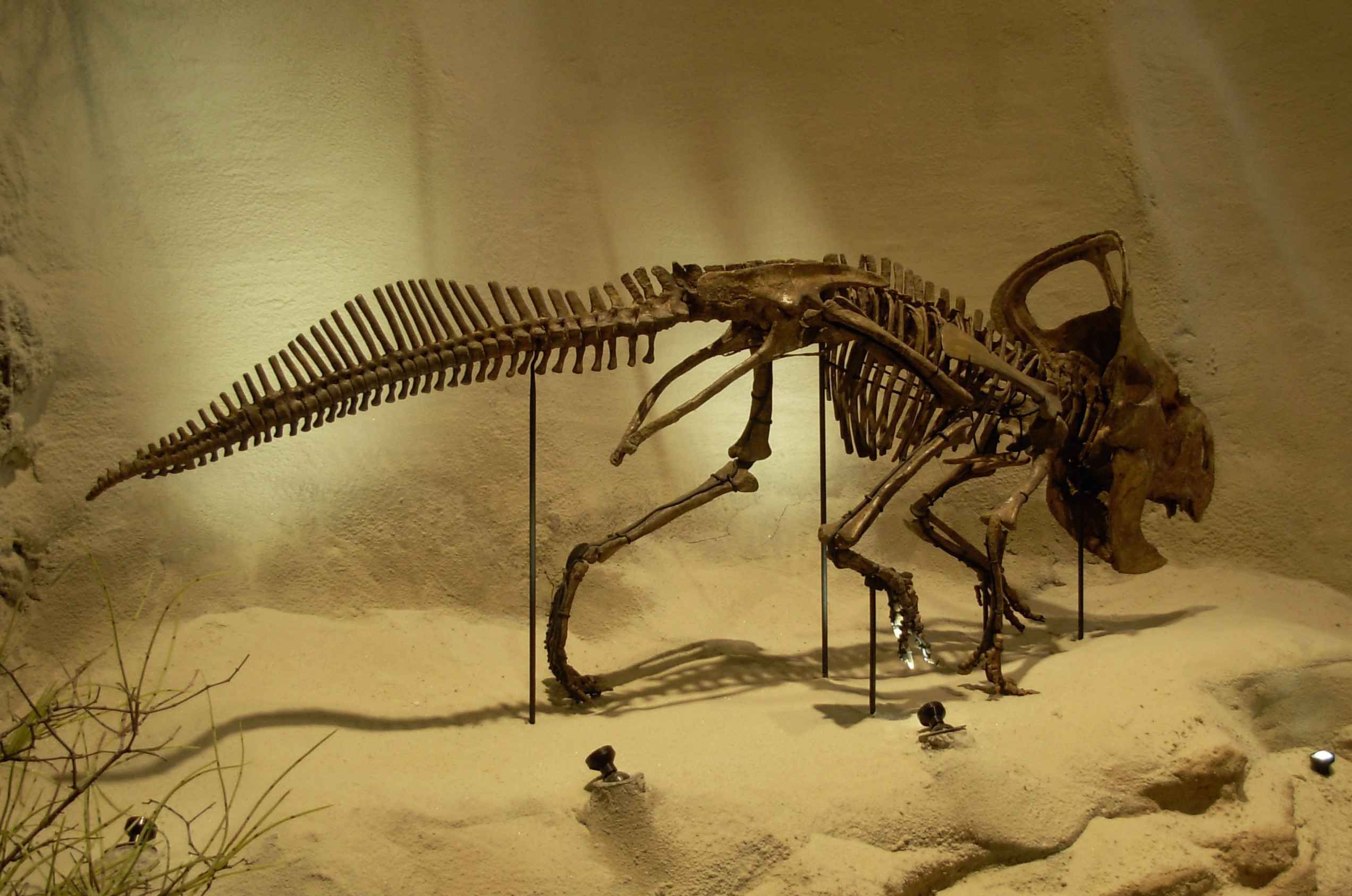 Protoceratops andrewsi